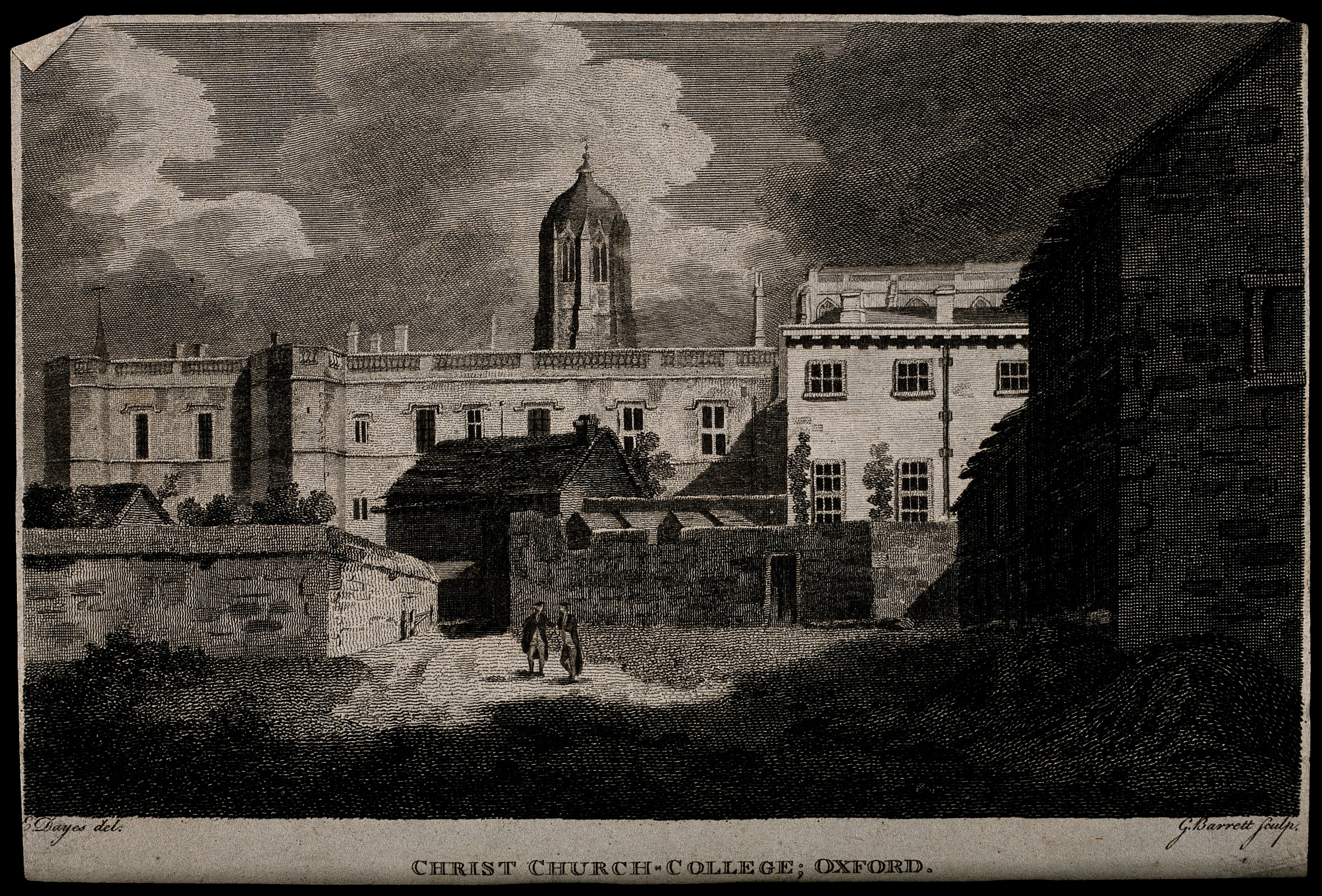 Christ Church, Oxford. Line engraving by G. Barrett after E. Dayes. Iconographic Collections Keywords: Christ Church (Oxford); University of Oxford; G. Barrett; Edward Dayes